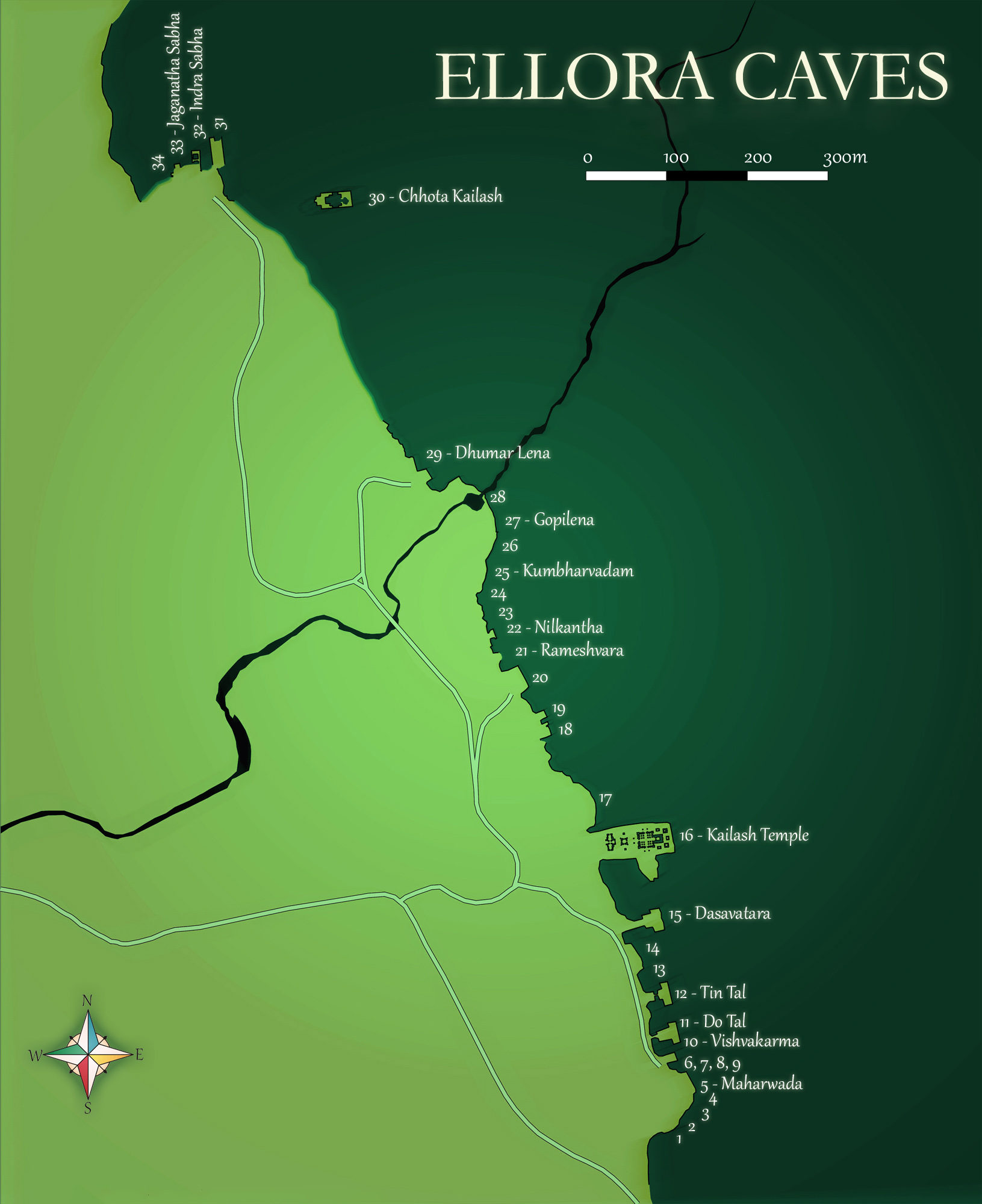 Ellora Caves, overview map